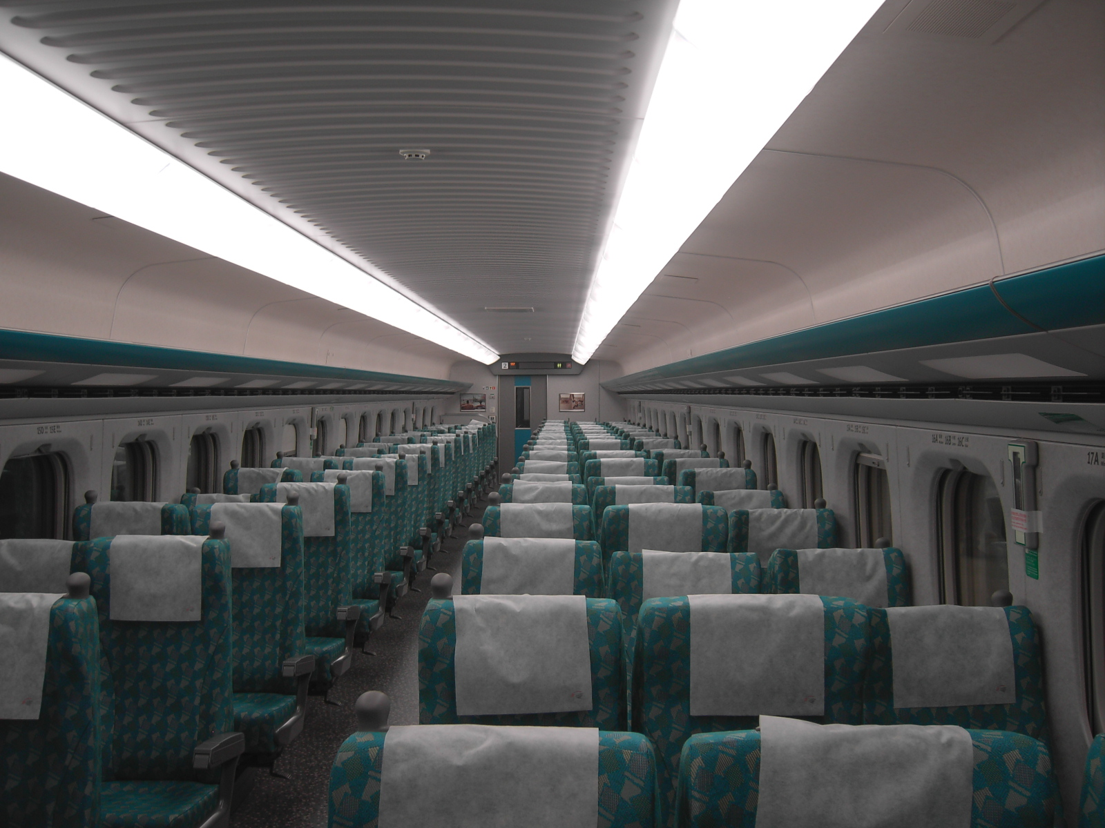 Taiwan High Speed Rail train T700T